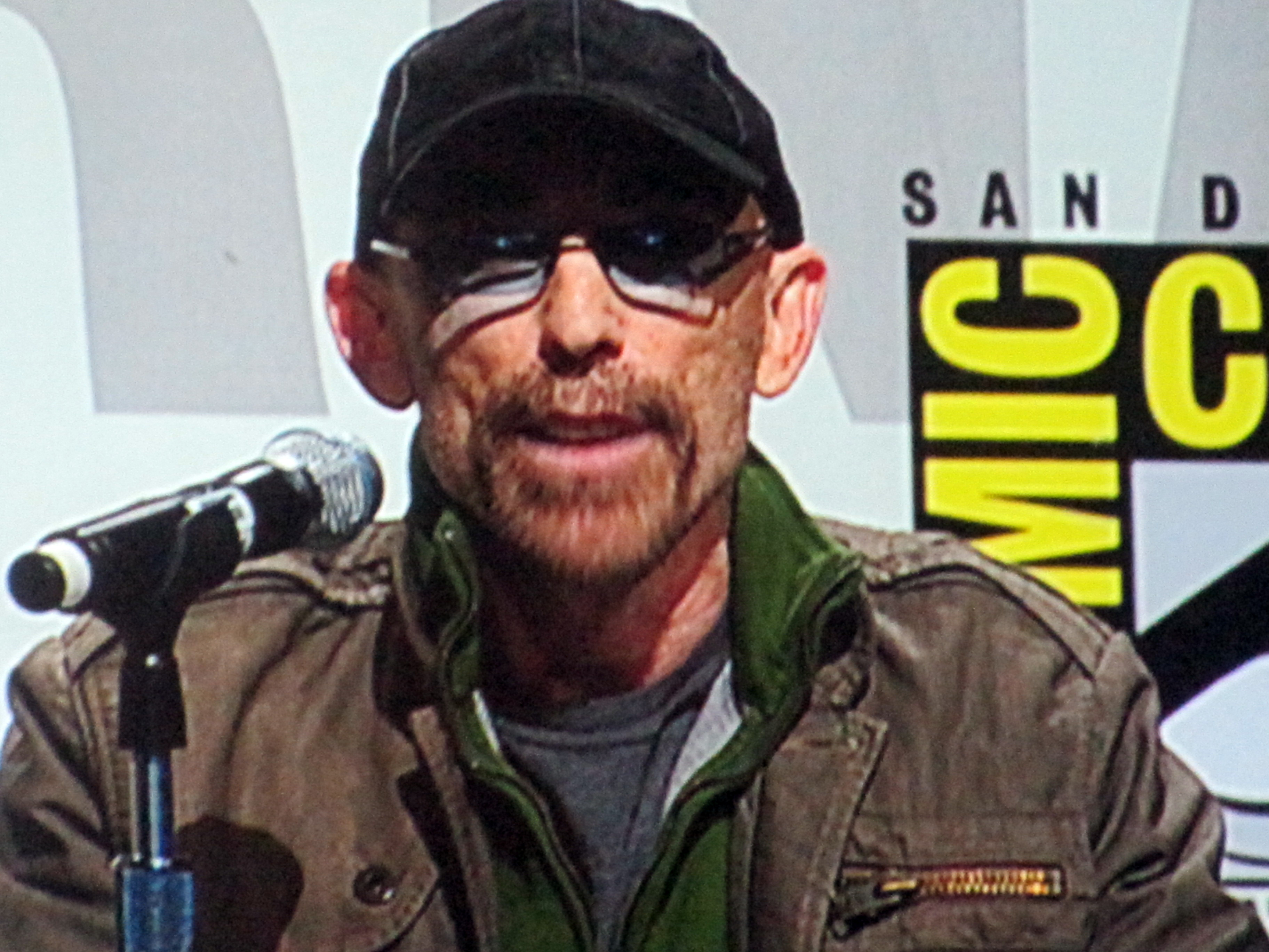 Actor Jackie Earle Haley participating in the panel for A Nightmare on Elm Street at WonderCon 2010.